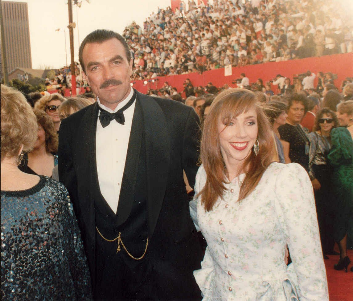 Tom Selleck on the red carpet at the 1989 Academy Awards, March 29, 1989